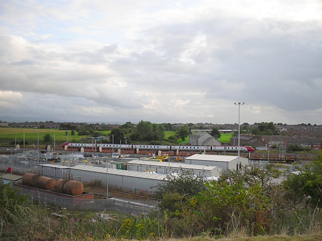 View across Upperby rail depot As seen from Hilltop Heights. Beyond the sheds a Virgin train is travelling north, past Hassell Street in Currock.